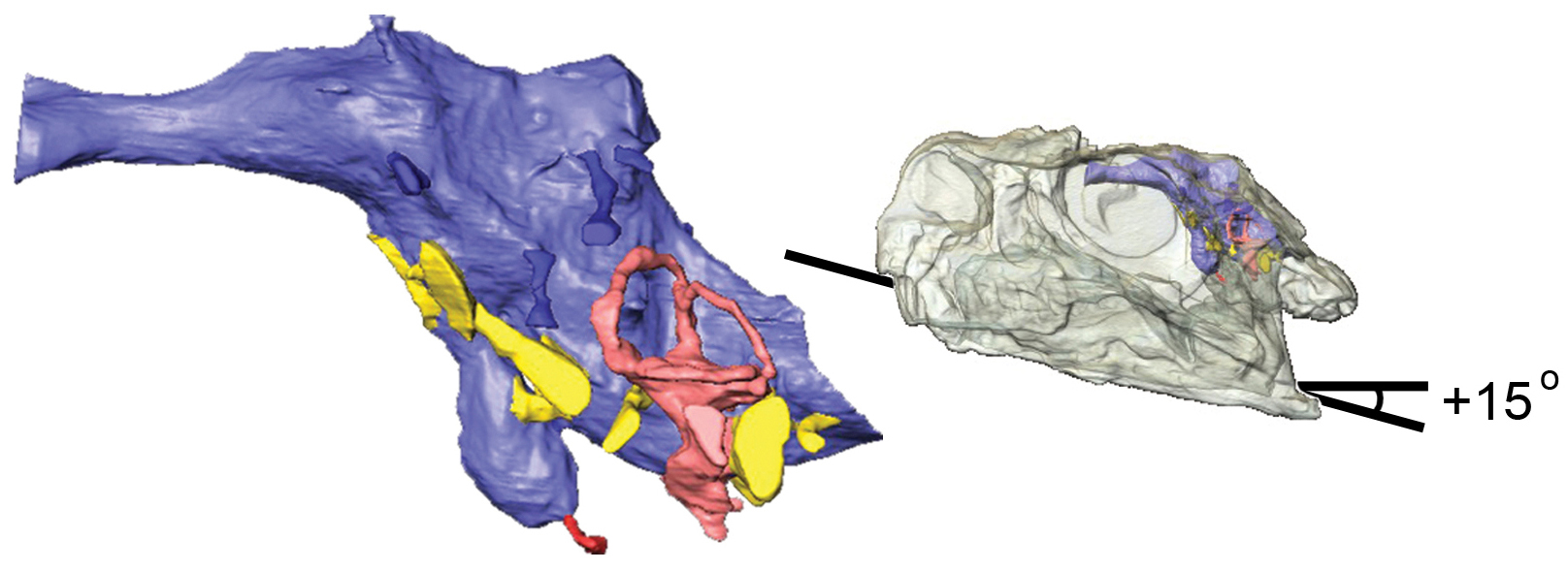 Endocast (above) and transparent skulls with endocasts in place (below) based on µCT scans of the basal sauropodomorph Massospondylus carinatus (BP 1/4779)